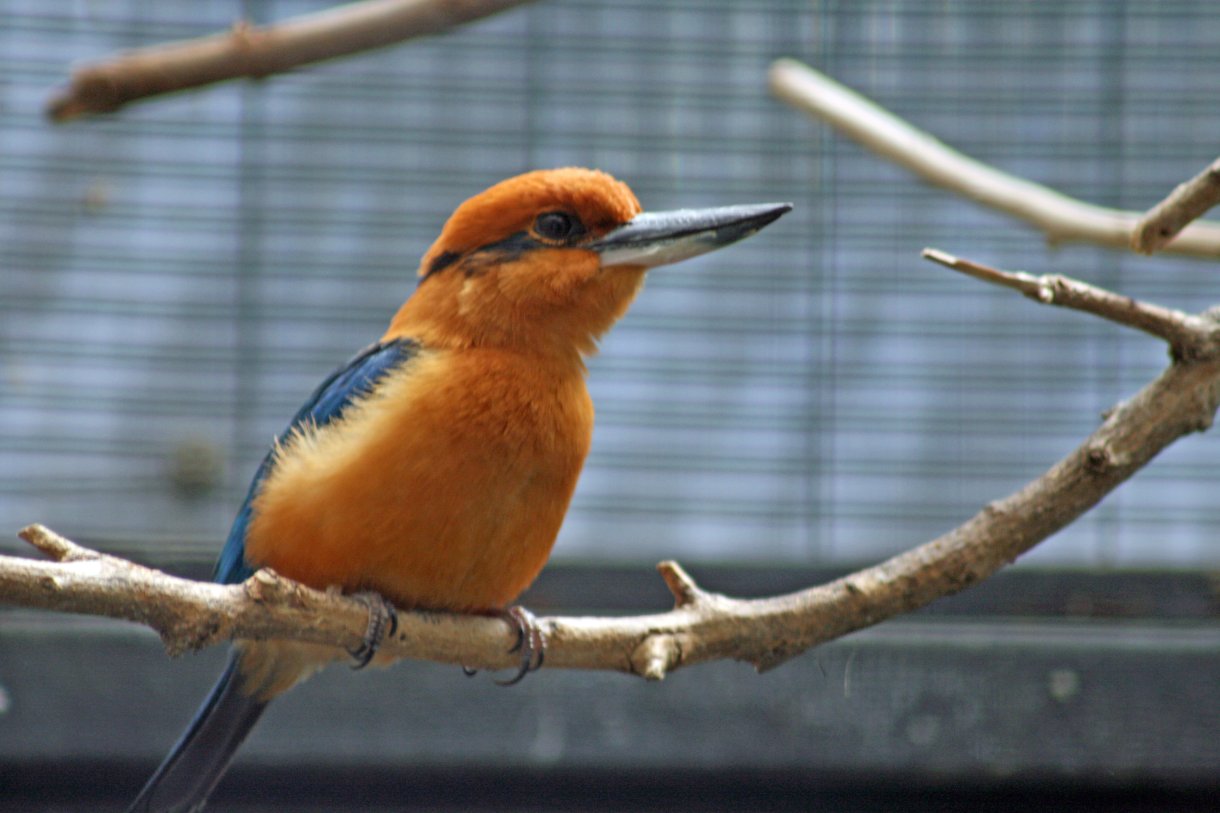 A male Micronesian Kingfisher at San Diego Zoo, USA. It is the nominate subspecies T. c. cinnamominus